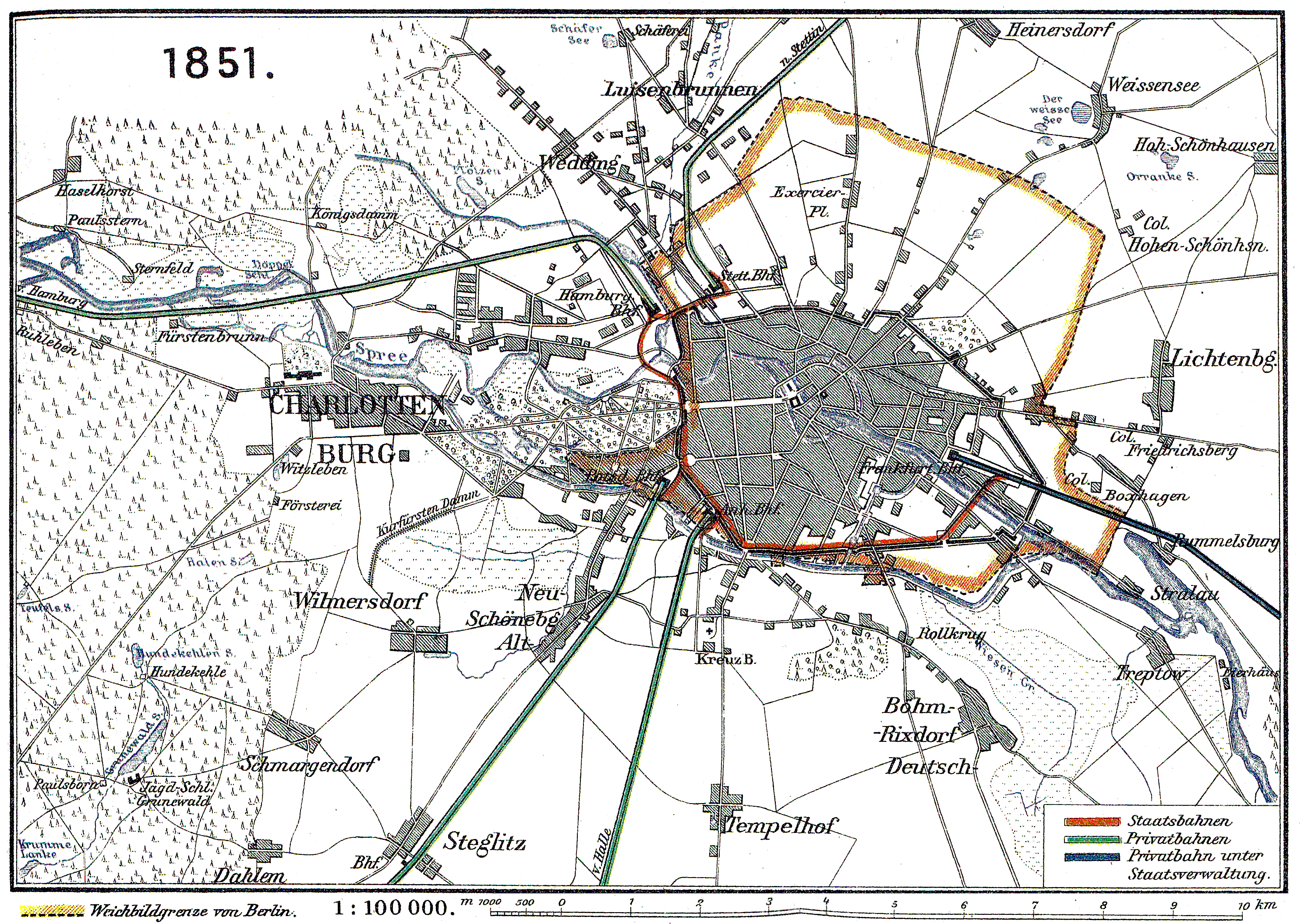 Evolution of rail transport in Berlin and its successive nationalization. Situation in 1896